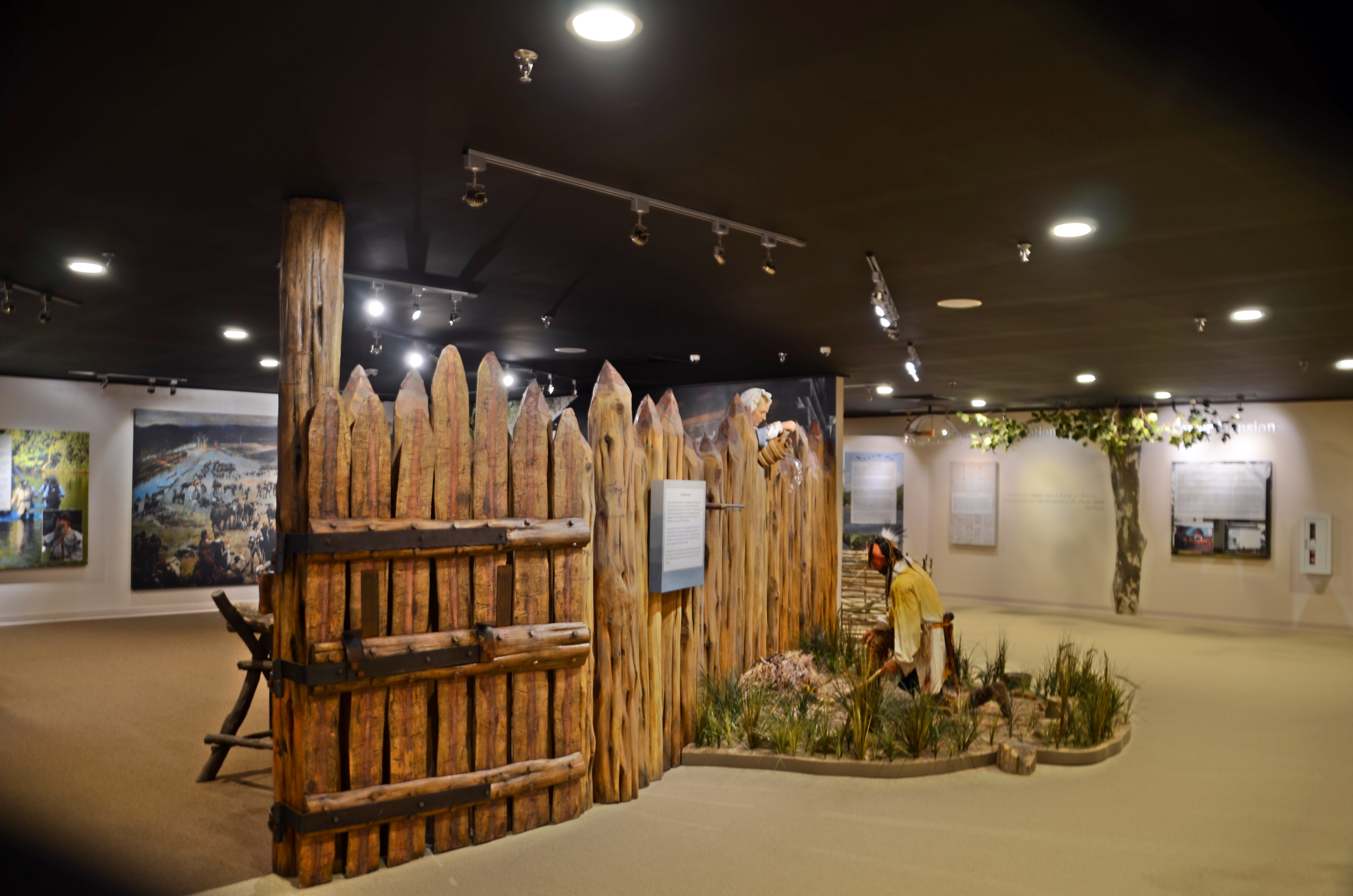 Ann Robertson pouring boiling water on attacking Cherokees during the 1776 attack on Fort Watauga. Exhibition at the museum in the Sycamore Shoals State Historic Park in Elizabethton, Tennessee